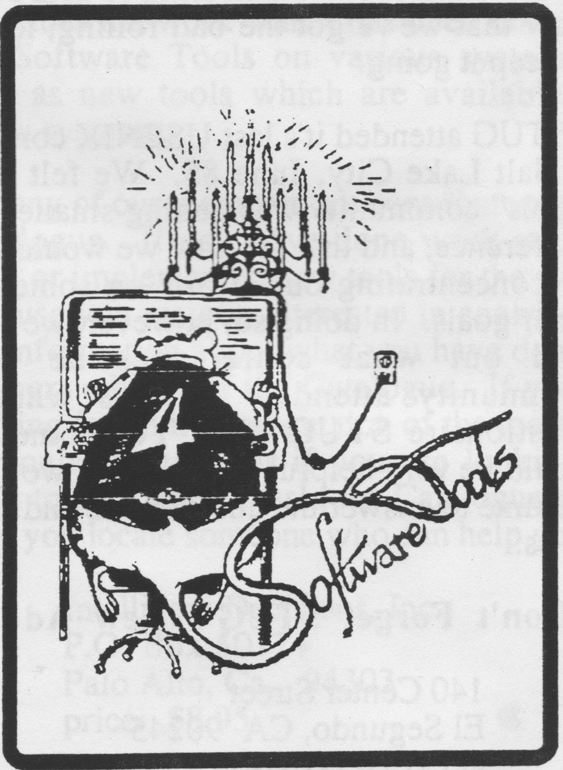 Logo for the Software Tools Users Group, which developed a set of portable UNIX-like tools written in Ratfor, a C-like preprocessor for Fortran